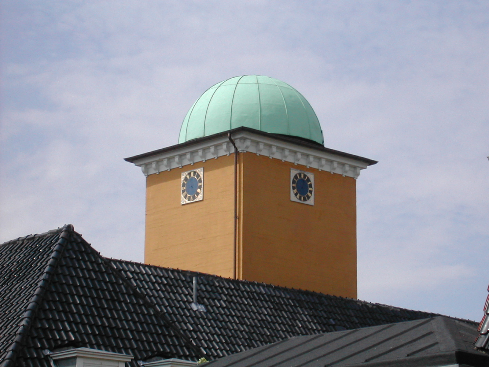 Montebello Observatory, Helsingør (Helsinore), Denmark